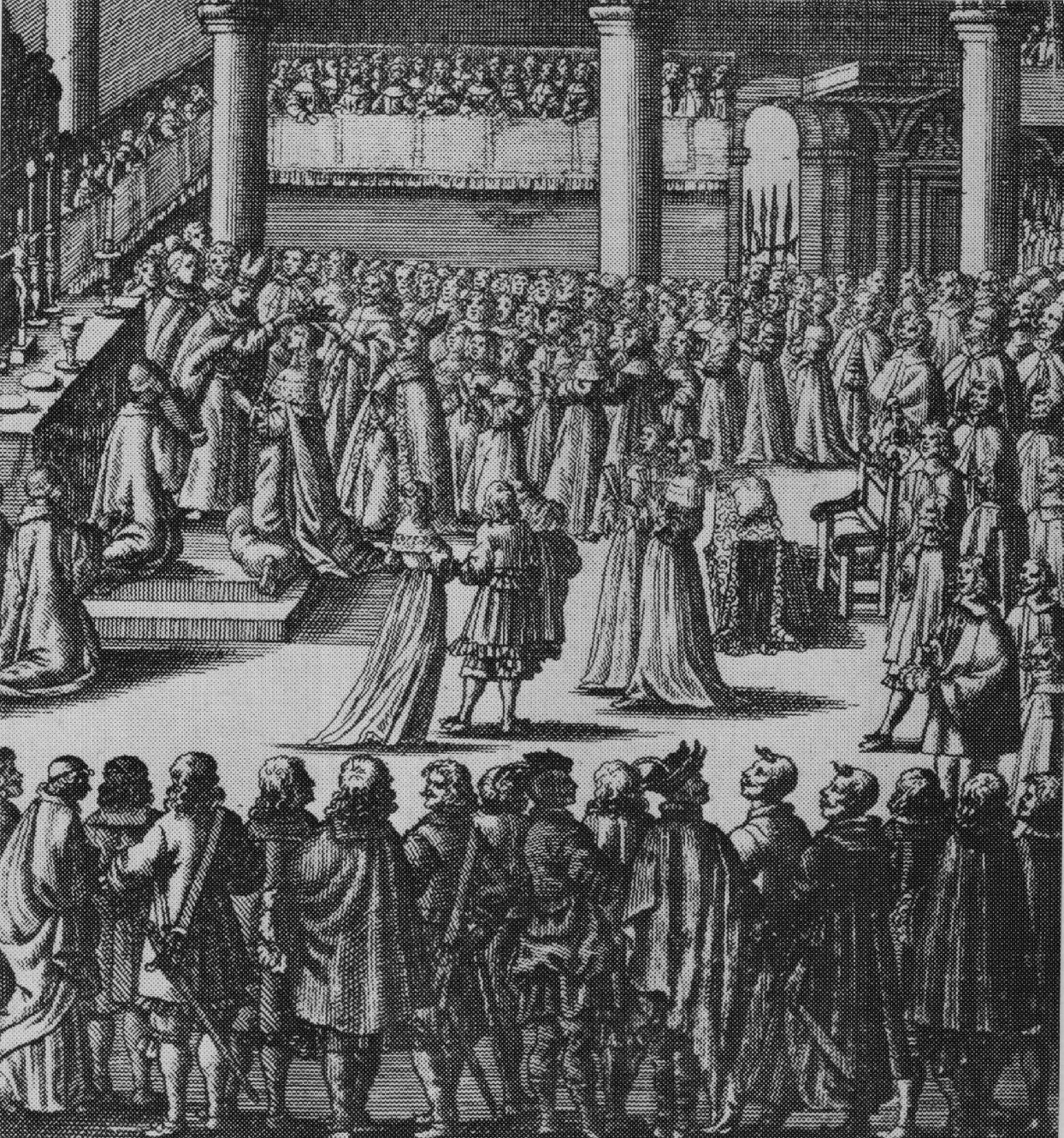 Coronation of Queen Eleonora Wiśniowiecka in St. John’s Cathedral in Warsaw.